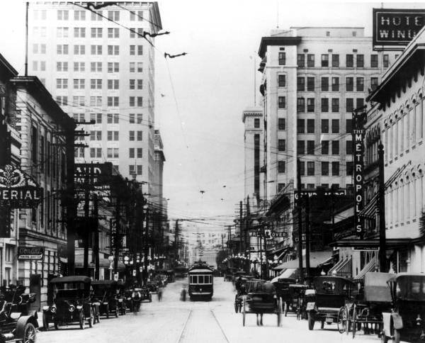 Forsyth Street, Jacksonville in 1914